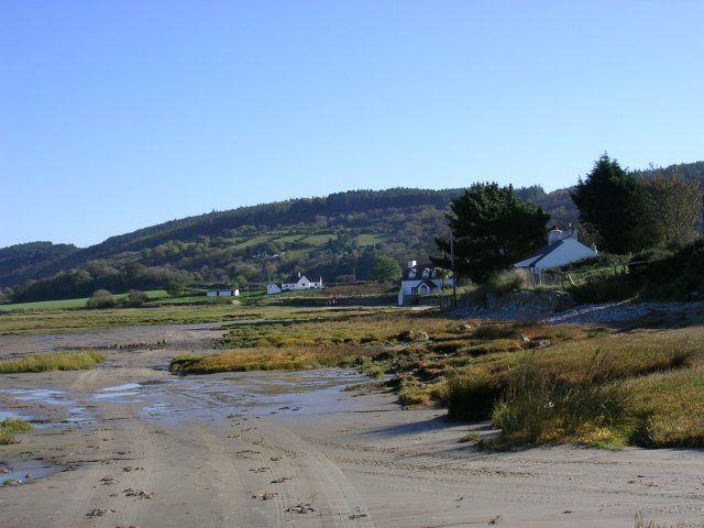 Traeth-coch. Looking towards the east along the shore at the southern end of Red Wharf Bay (Traeth-coch)